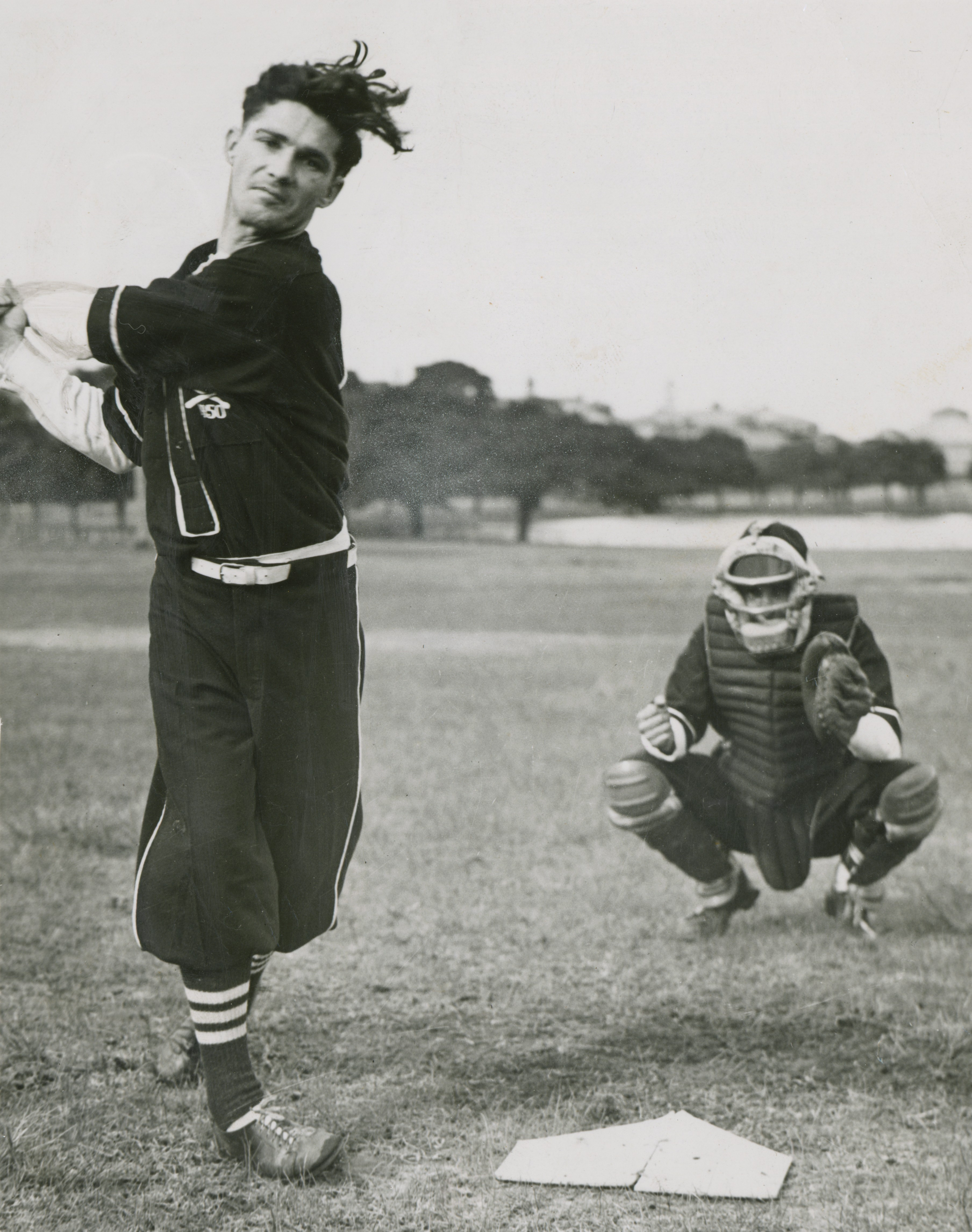 Australian test cricketer Neil Harvey who is a member of Victoria's baseball team, practising at Moore Park